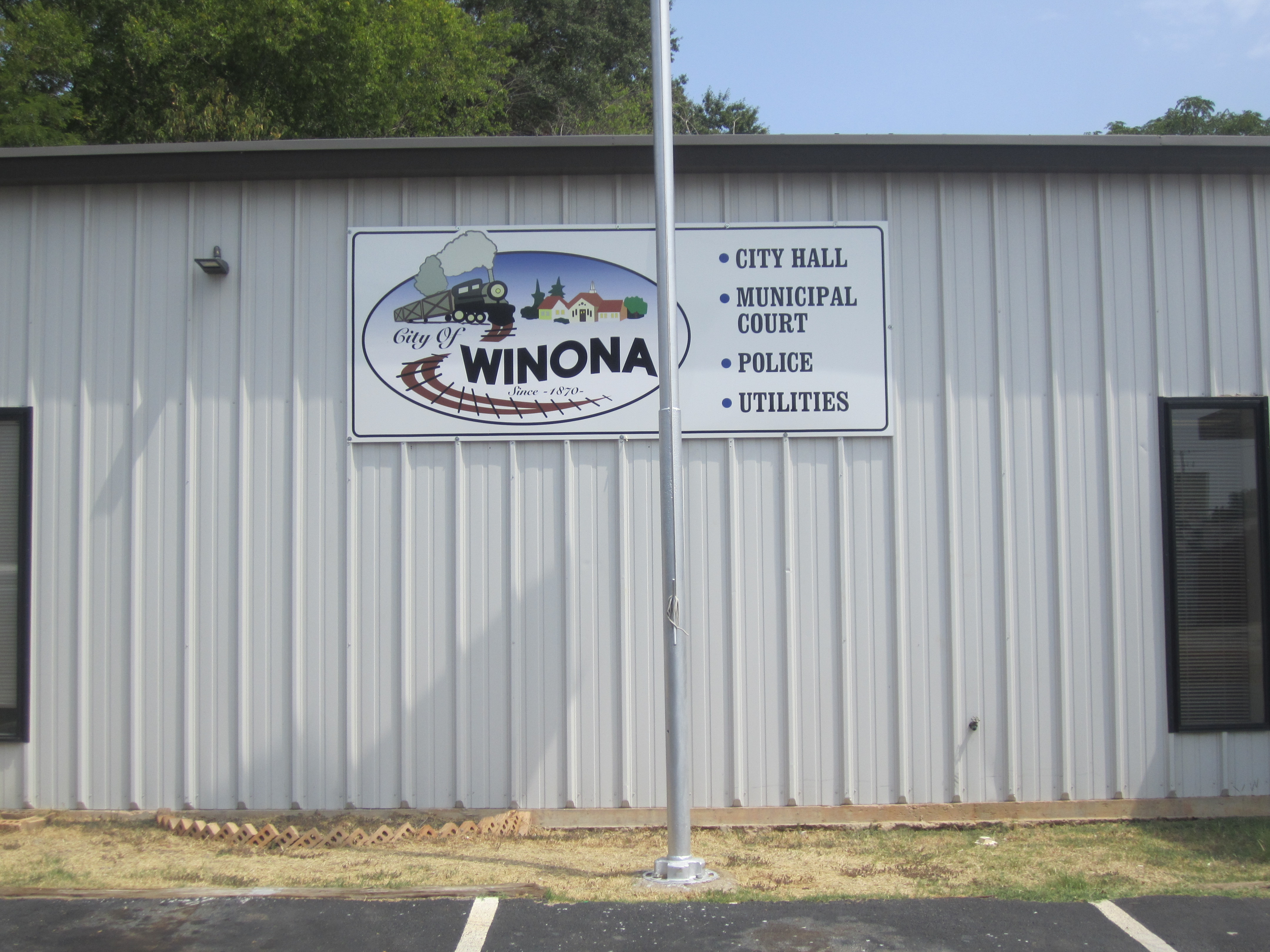 I took photo with Canon camera of Winona, TX, City Hall.